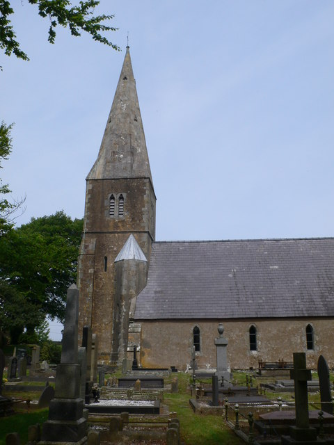 St Caffo's Church, Llangaffo, near to Llangaffo, Isle of Anglesey/Sir Ynys Mon, Great Britain. The present church here was built in 1845. It has many ancient artifacts, and is well known for the remarkable collection of inscribed and decorated stones, dating from the 7th to 12th centuries.